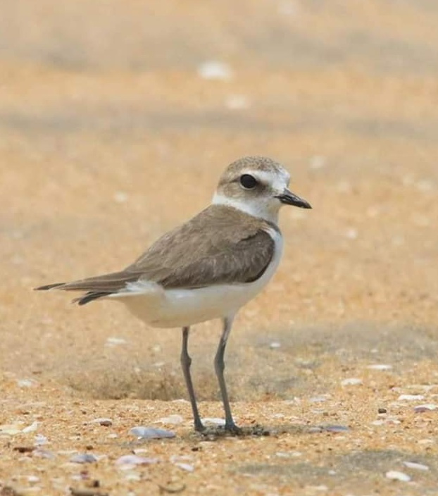 Kentish plover